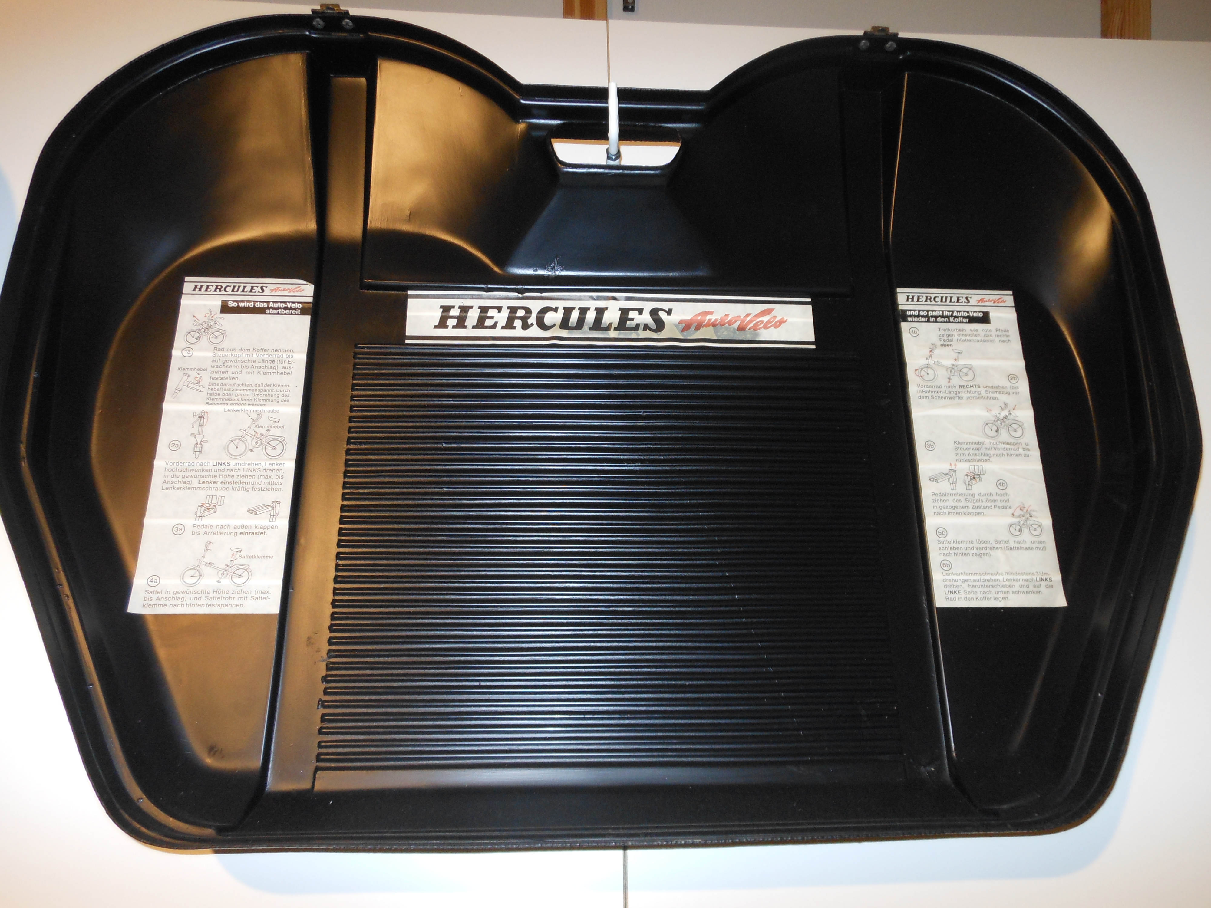 Case for Hercules Auro Velo folding bicycle.